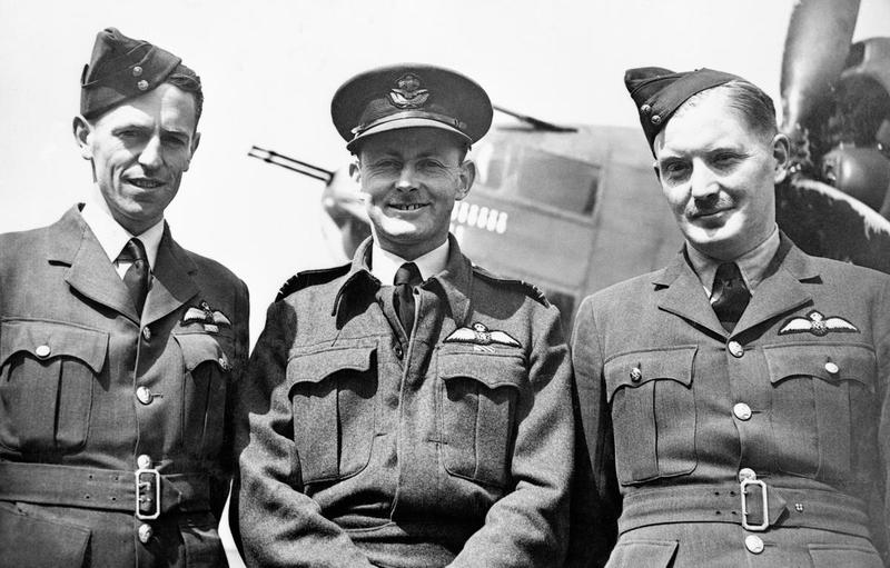 IWM caption : Wing Commander G J "Chopper" Grindell (centre), Commanding Officer of No. 487 Squadron RNZAF, standing with his two flight commanders in front of a Lockheed Ventura at Methwold, Norfolk. On his left is the 'A' Flight commander, Squadron Leader T Turnbull, and on his right is the commander of 'B' Flight, Squadron Leader L H Trent, who, on 3 May 1943 led the Squadron in a disastrous daylight attack on the power station at Amsterdam. Ten of the eleven aircraft participating were shot down, including that of Trent who was captured. In 1945 he was awarded the Victoria Cross when the story of his outstanding leadership and determination during the raid became known.